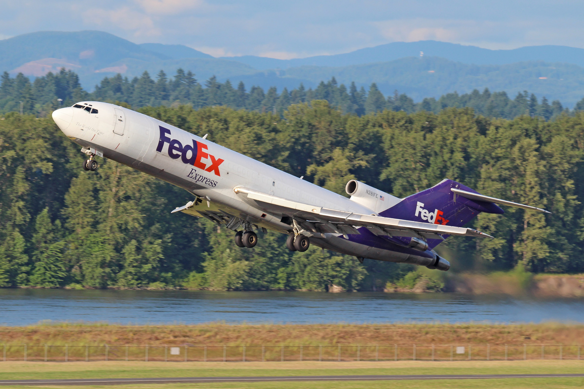 A FedEx 727-233 lifts off from Portland International (KPDX), Summer 2011.